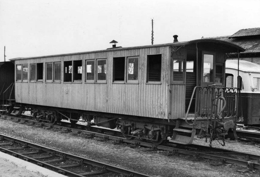 Blanc - Argent - Voiture ex-SE Allier en gare - ROMORANTIN (41)